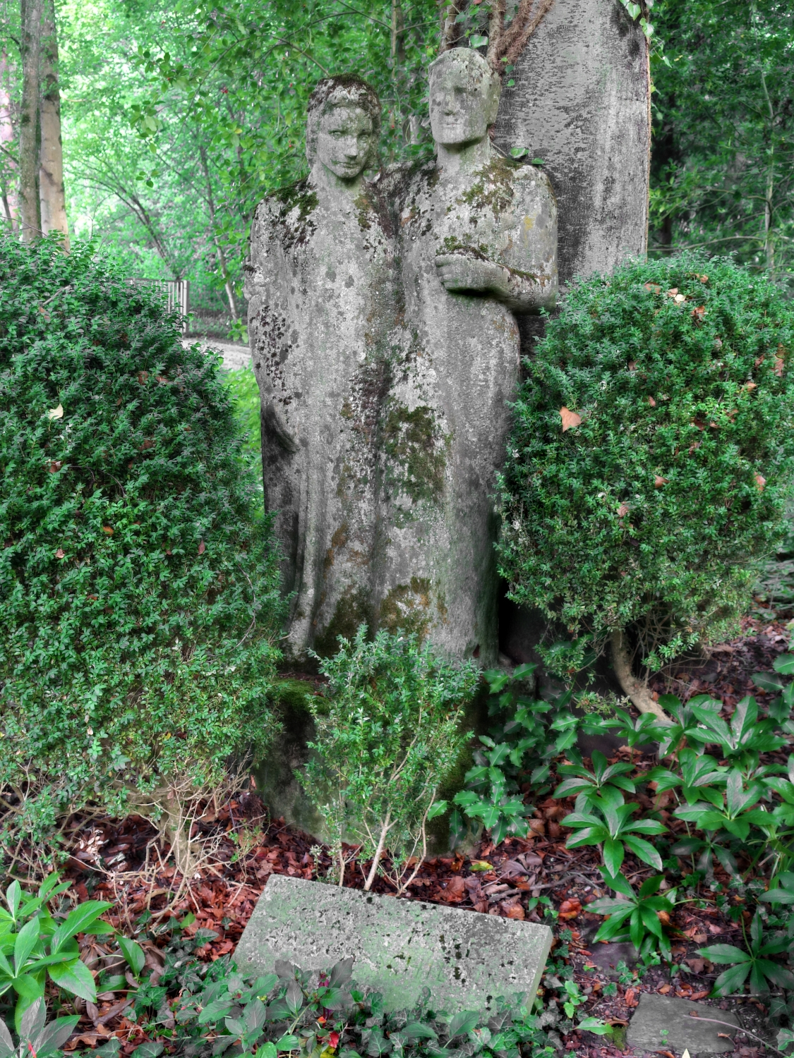 Waldfriedhof Rheinfelden, Aargau. Grab Skulptur für Carl Habich-Schilplin (1873-1931) Stadtrat von Rheinfelden. Von Adolf Glatt (1899-1984), Bildhauer